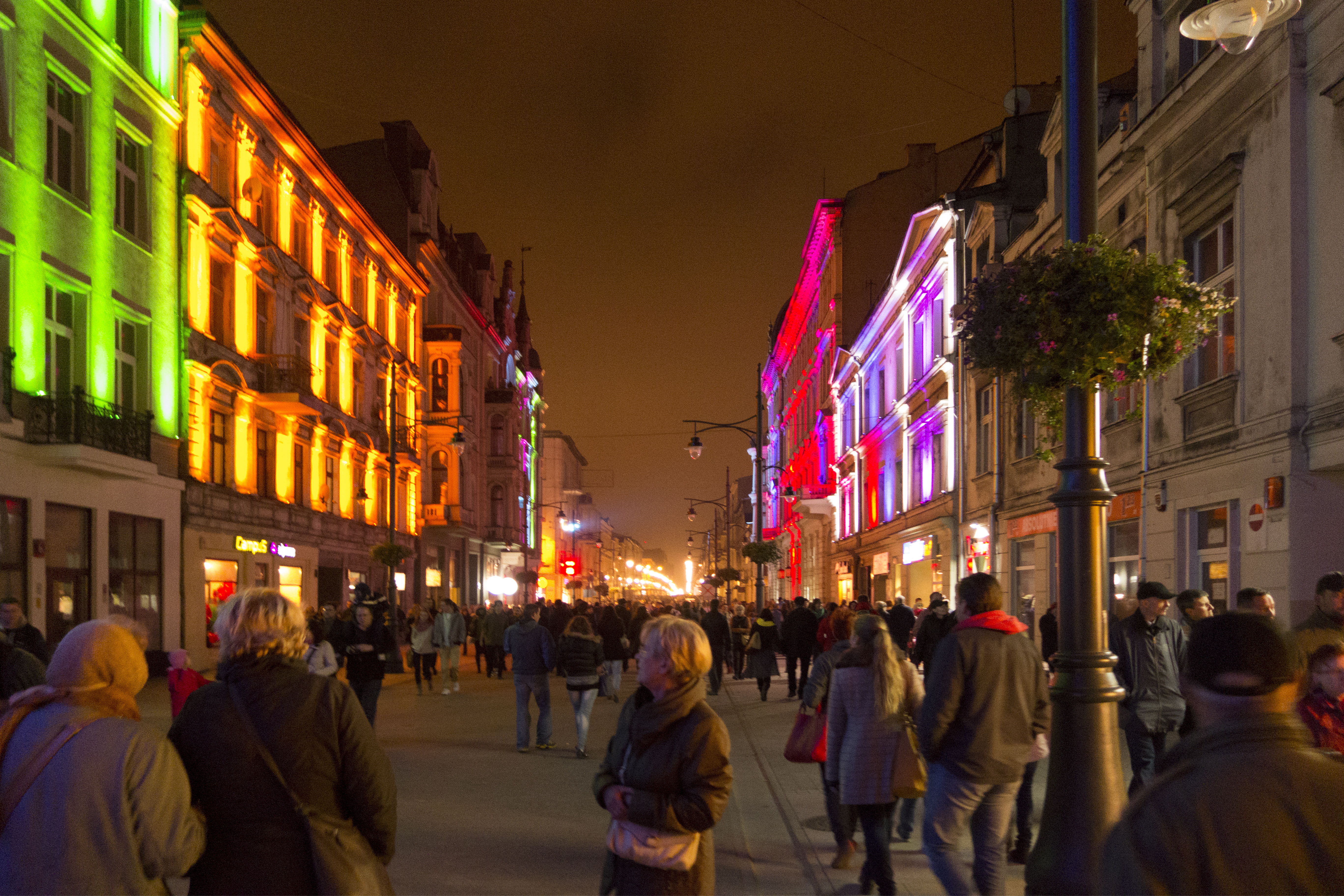 Light Move Festival 2013 in Lodz(Poland)